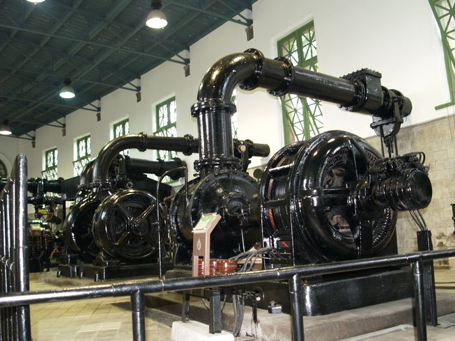 Museum of drinking water, taken by ResTpeTw on July 29th 2007